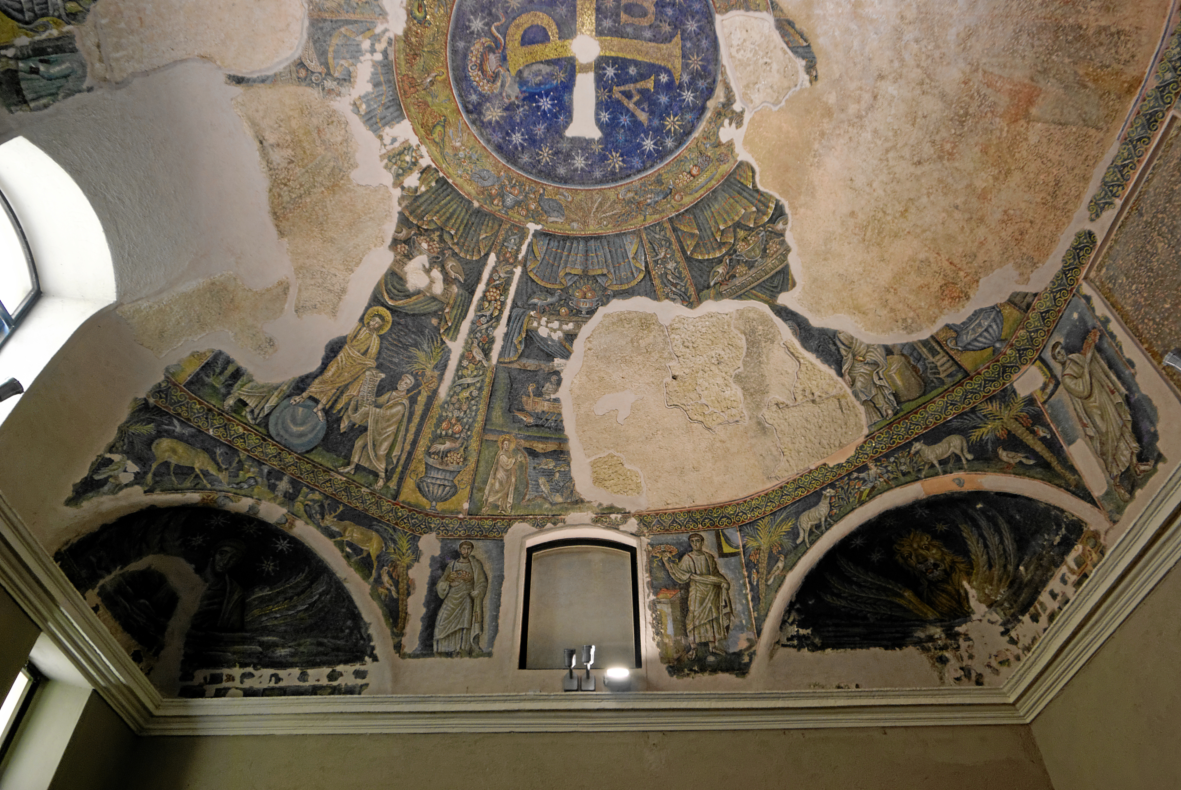 Naples, cathedral, Batistery of San Giovanni in Fonte